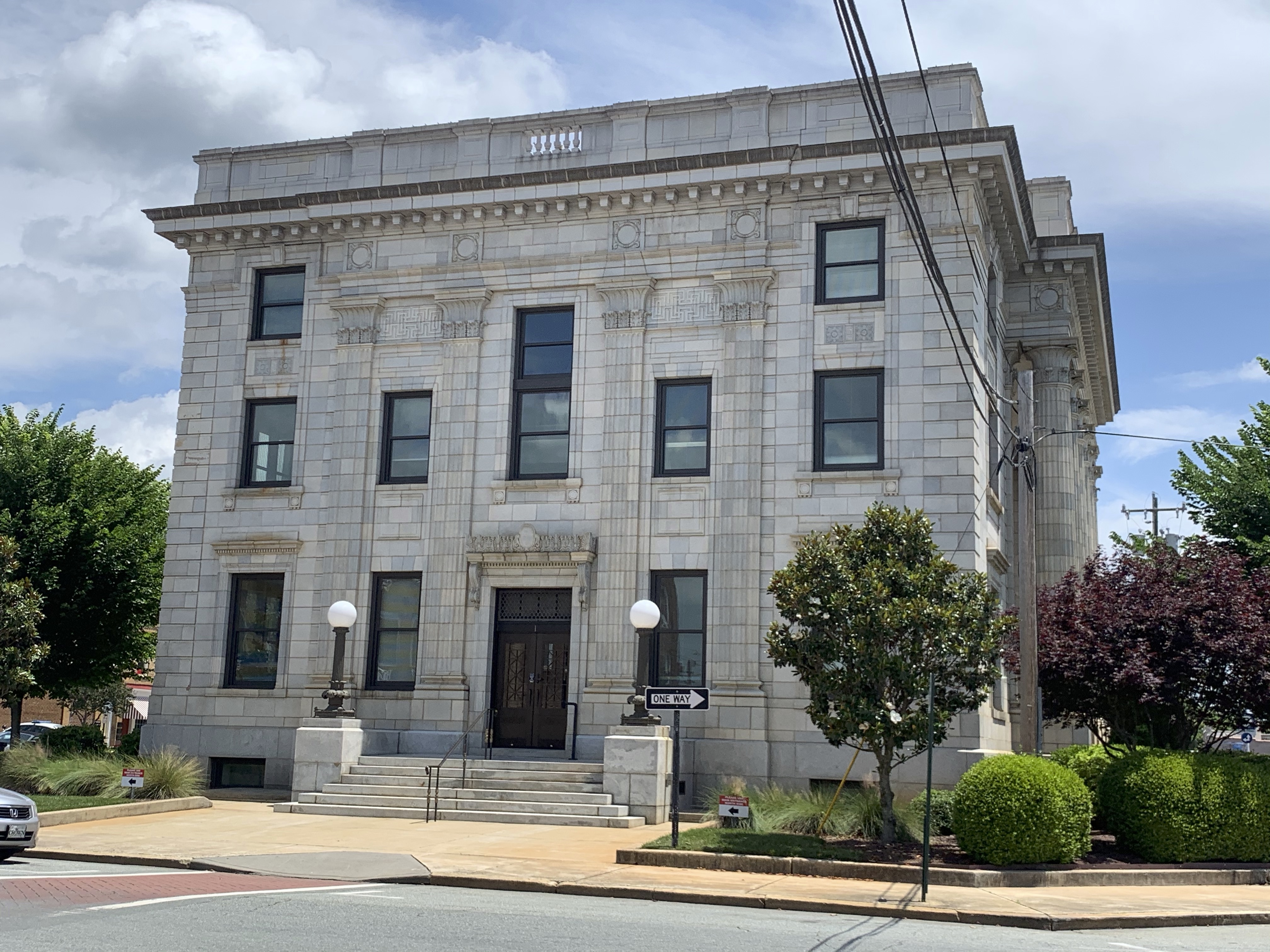 West face of Alamance County Courthouse, featuring faux columns and stairs leading to door.